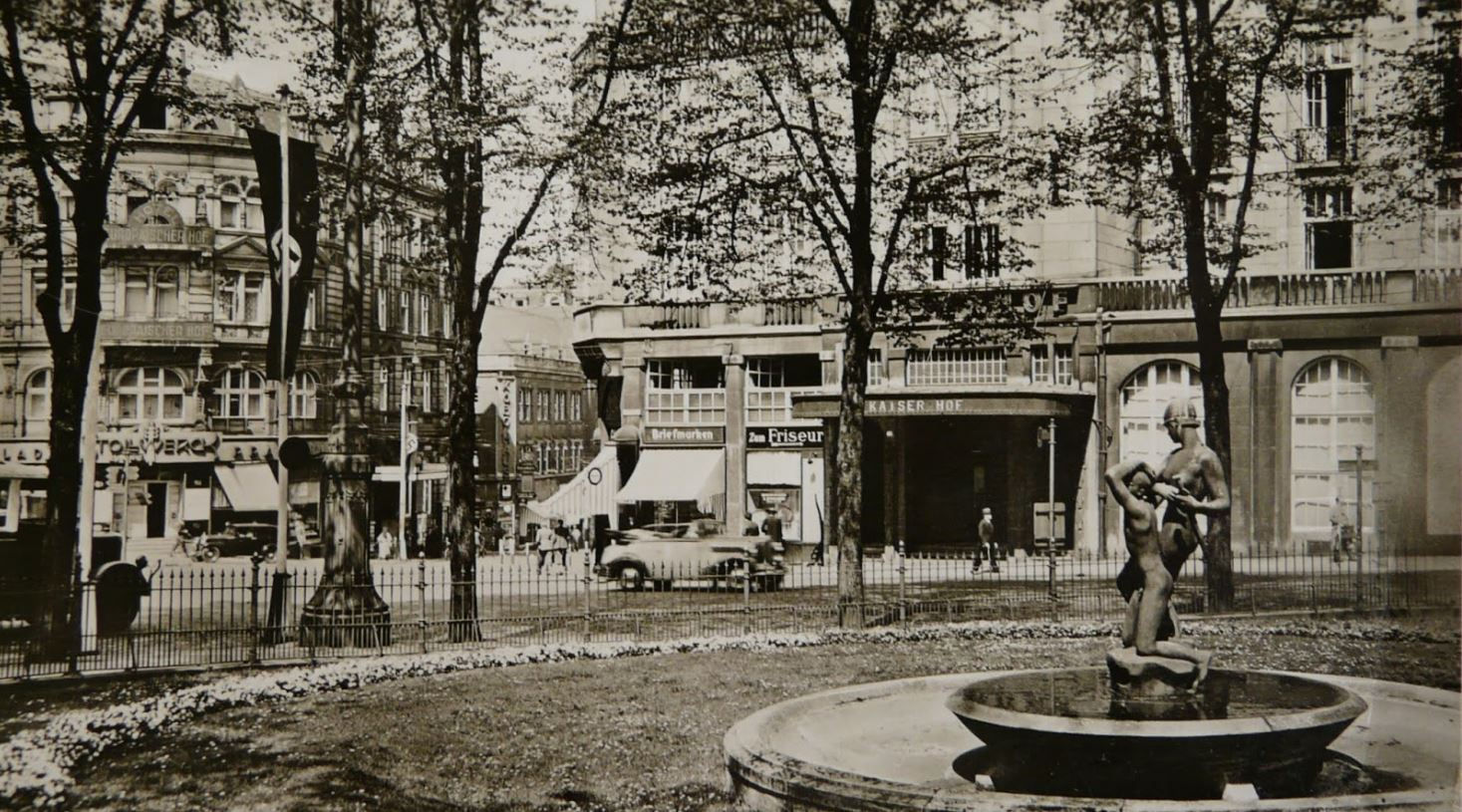 Bellona, sculpture and fountain by Georg Kolbe in Wuppertal (Germany)